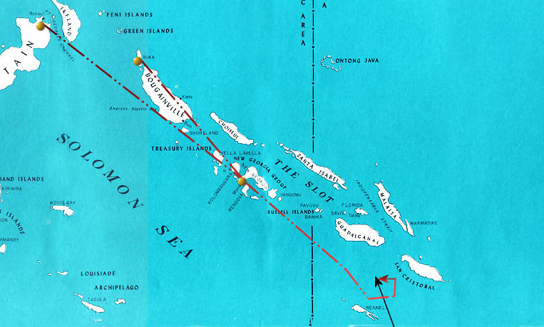 Chart of Japanese air attack on U.S. Task Force (TF) 18 between Rennell Island and Guadalcanal on the evening of January 29, 1943. TF 18 was heading for Guadalcanal (black arrowed line, lower right). Japanese "Betty" torpedo bombers (dashed red line) departed from Rabaul (upper left), Buka (upper left), and Munda (center) airfields and joined together for a coordinated attack. The Japanese aircraft circled around to the south of TF 18 so that they could attack from the east, with the black sky of approaching nightfall behind them. Background taken from [1] (which is a U.S. government public domain document) and modified by myself, cla68, on July 22, 2006 to forces battle tracks. Released under the GFDL.